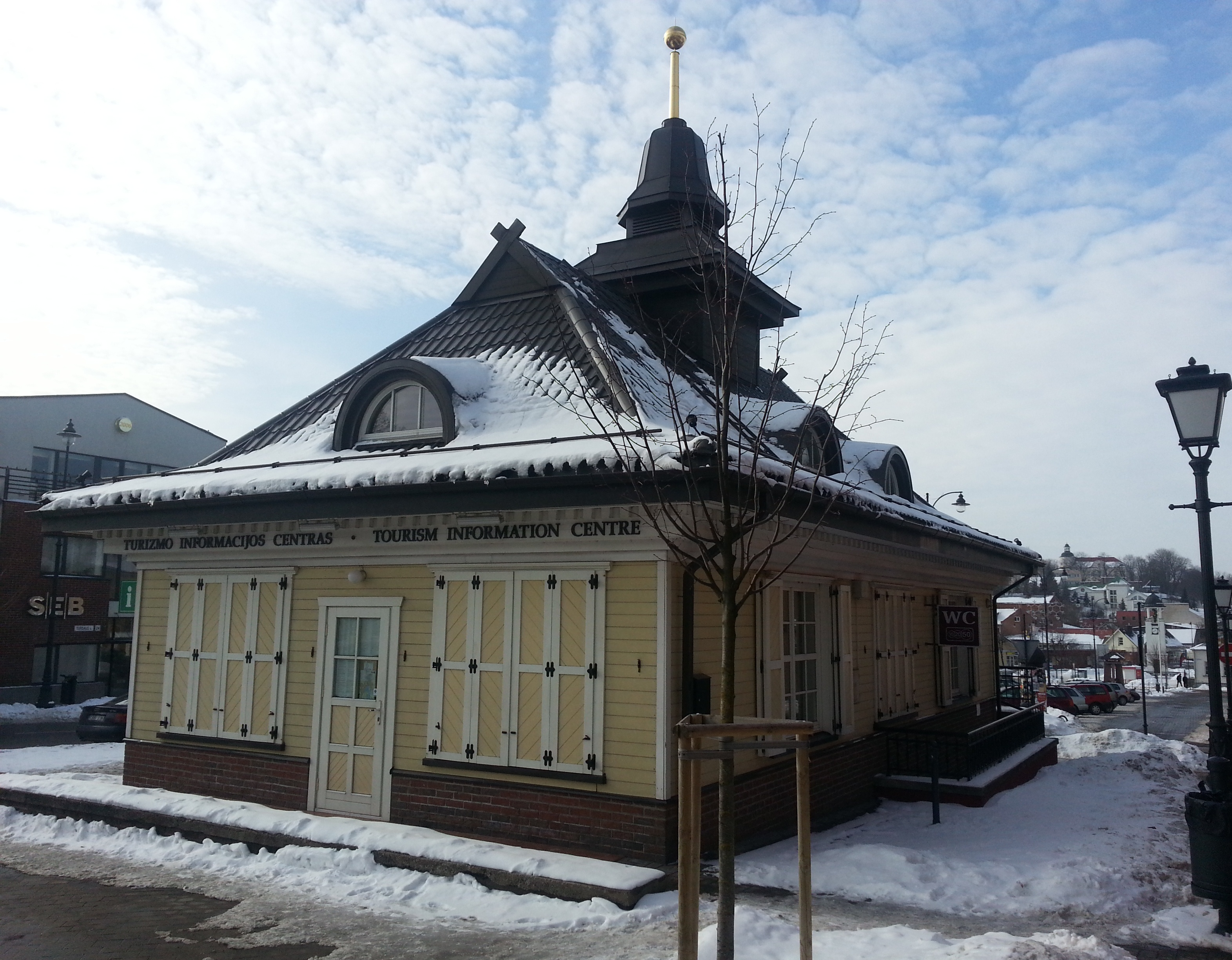 Samogitia tourism information center in TelšiaiLietuvių: Žemaitijos turizmo informacijos centras TelšiuoseŽemaitėška: Žemaitėjės torizma informacėjės cėntros Telšiūs